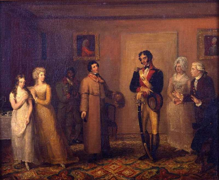 William Dunlap, Scene from James Fenimore Cooper's "The Spy" (1823); measures of the original painting: height 28.25 inches, width 33.25 inches